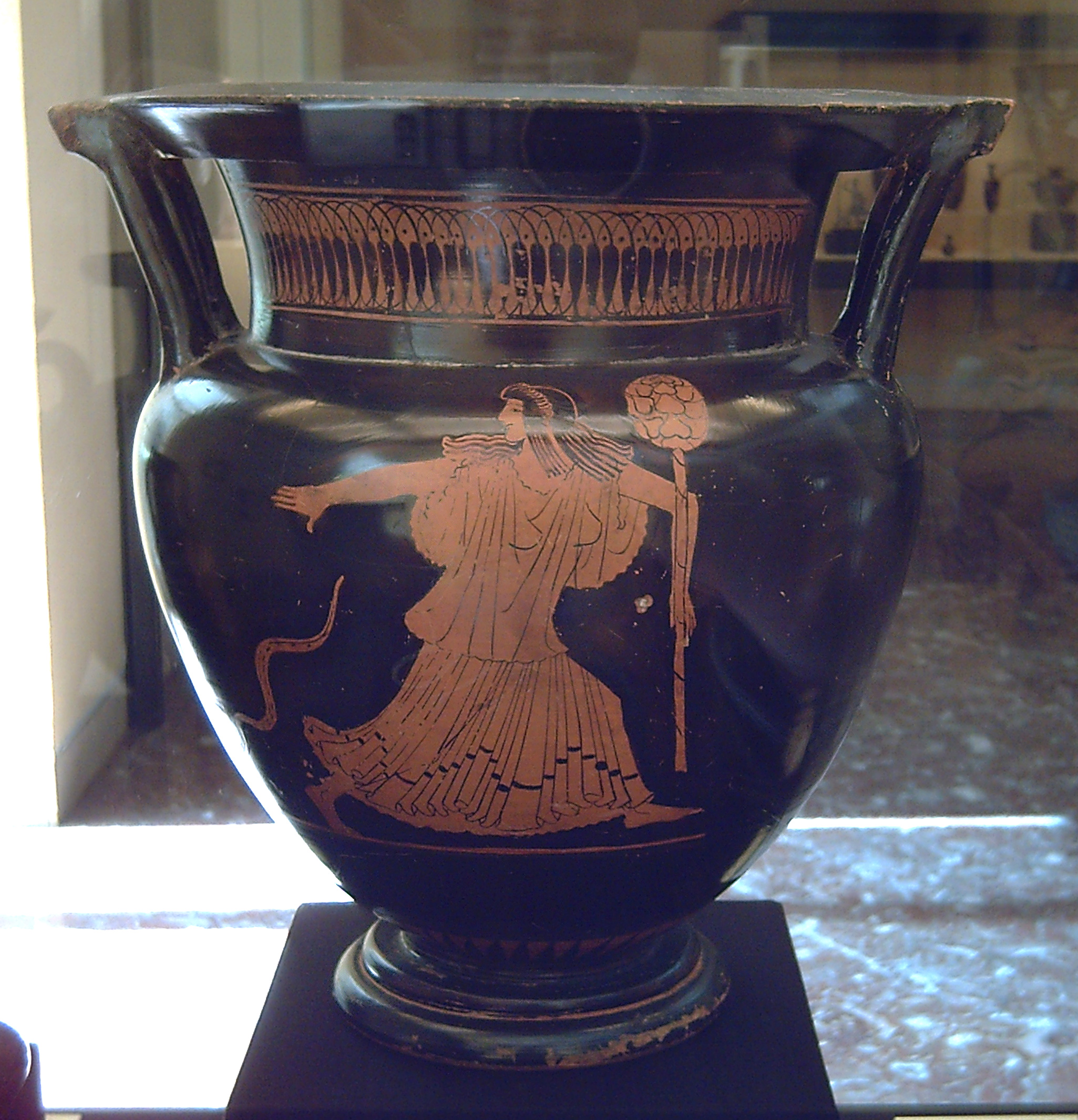 An Ancient Greek column krater. It shows a maenad, who is pursued by a satyr (opposite side).